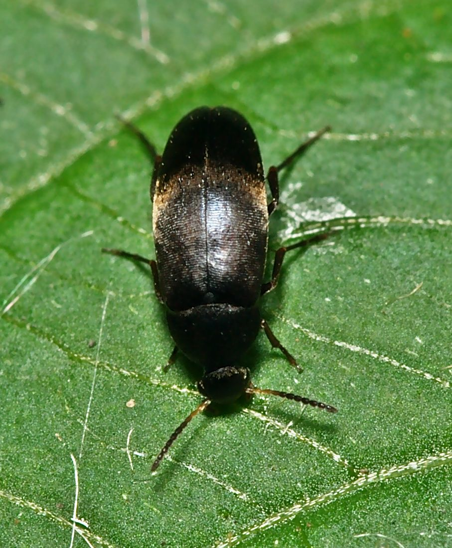 Anaspis rufilabris from Koenigsforst near Cologne, Germany.